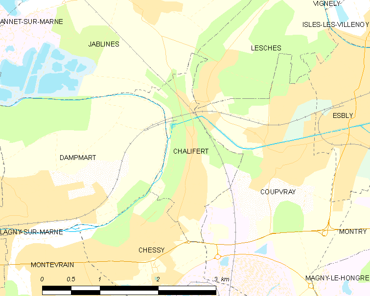 Map of French municipality Chalifert